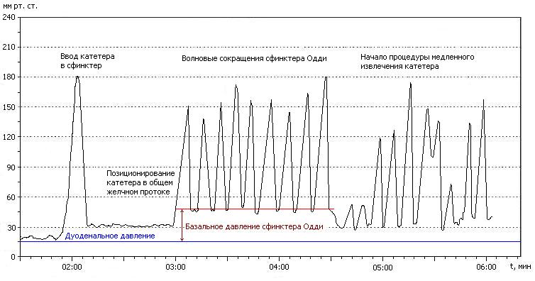 The manometry of sphincter of Oddi